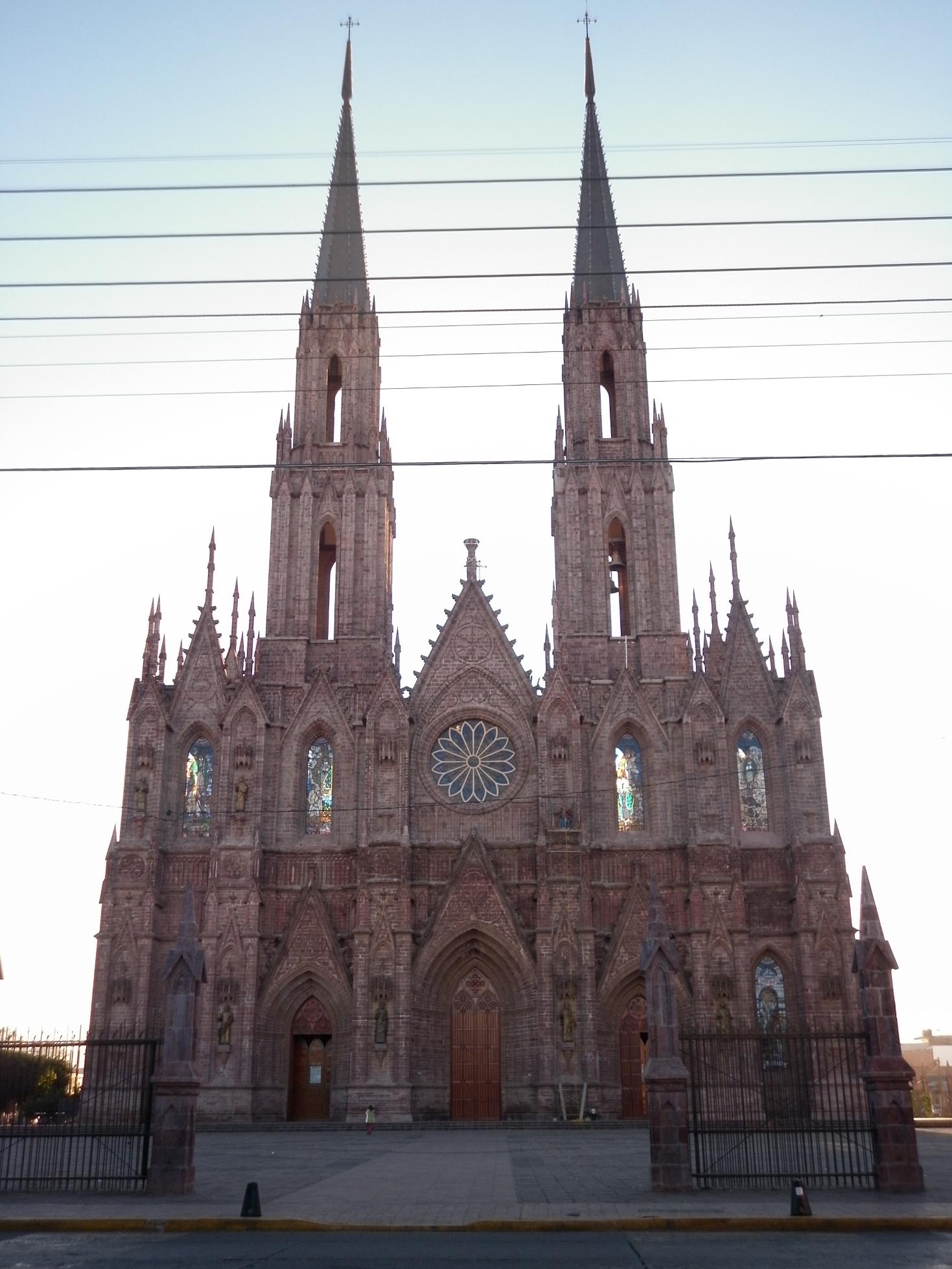 Front facade of the Templo Expiatorio del Sagrado Corazón, in Zamora Michoacán, México